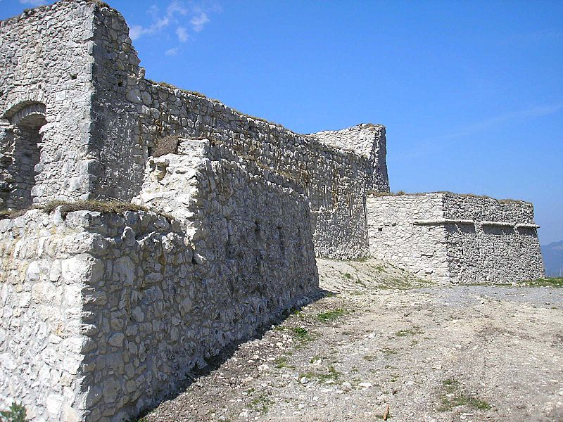 Fort Claudia (Hochschanz), Fortress Ehrenberg near Reutte (Tyrol, Austria). The eastern part, looking north.